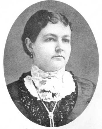 Portrait of Carrie Gertrude Seay